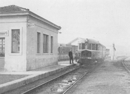 Rovato SNFT railway station in 1956